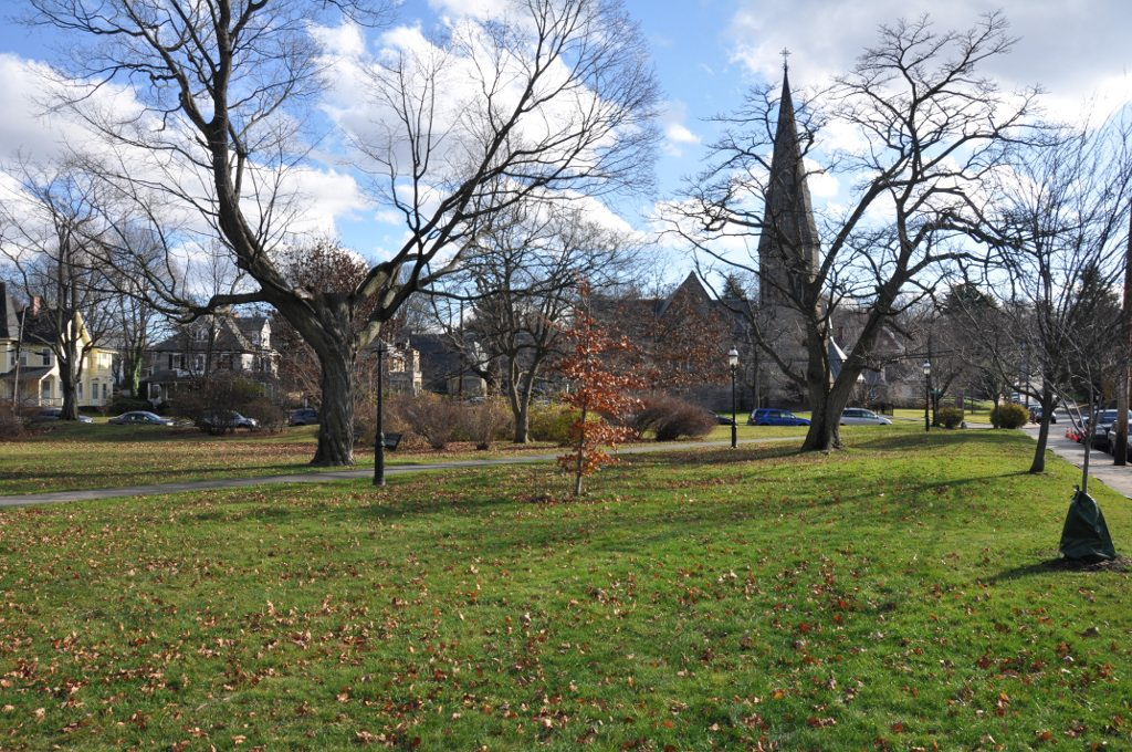 Farlow Park, part of the Farlow and Kendrick Parks Historic District in Newton, Massachusetts.